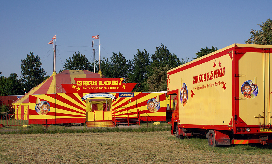 Circus Kæphøj, Holbæk, Denmark. Communiti funded children's circus